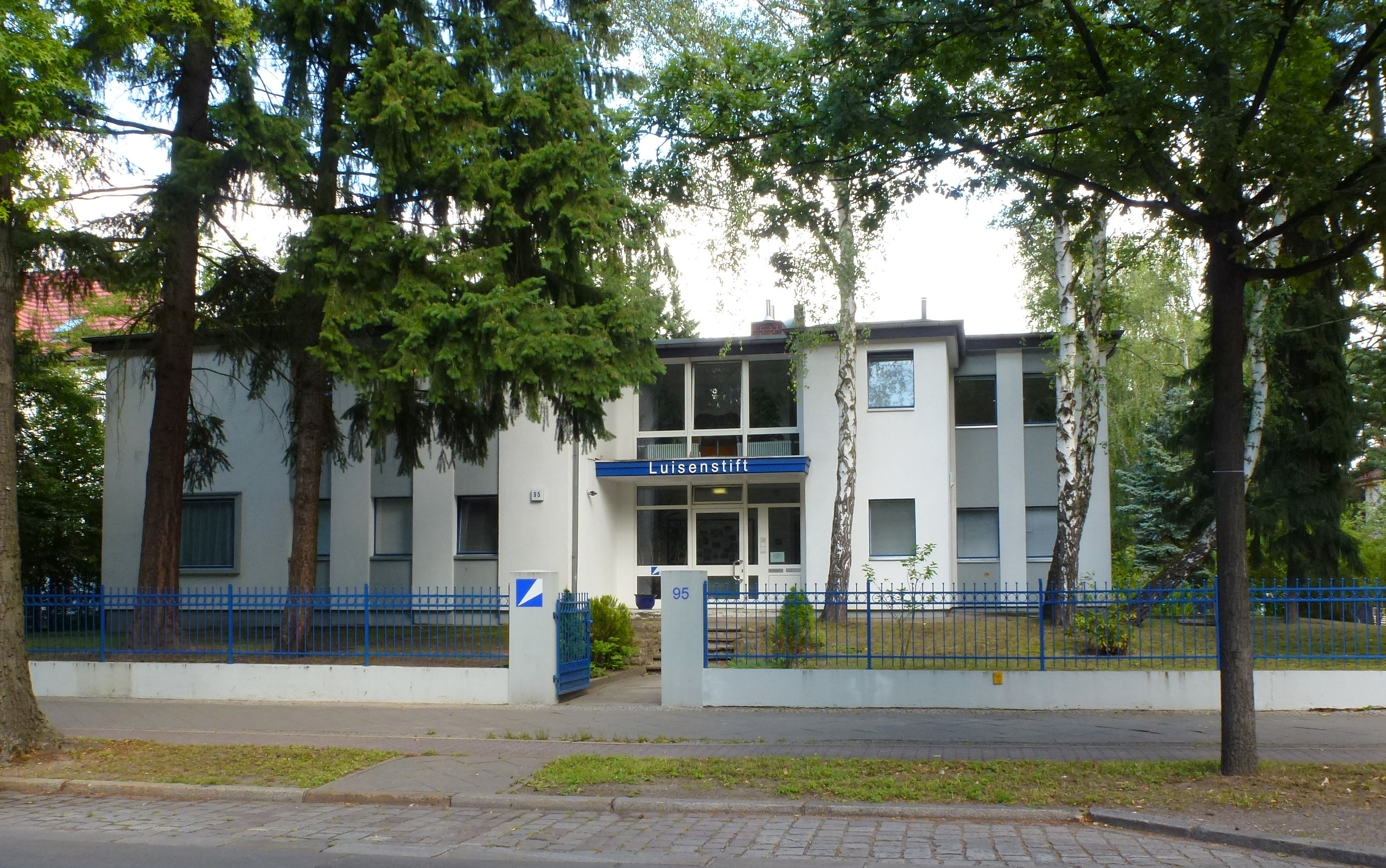 Berlin-Dahlem Königin-Luise-Straße